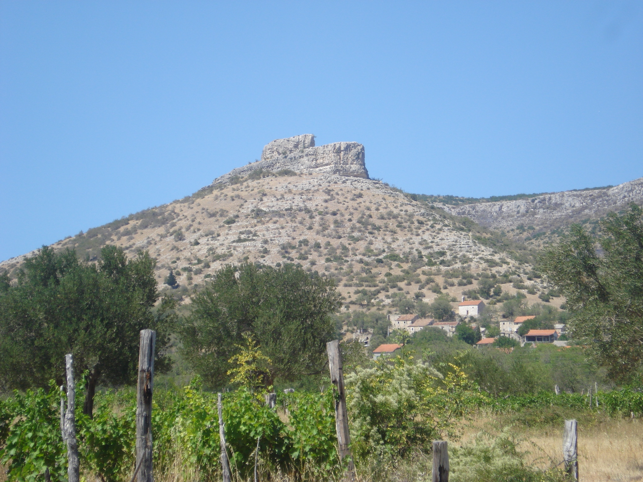 Ostrovica (Zadar County, Croatia) - south view of the ruined castle rock and the village below